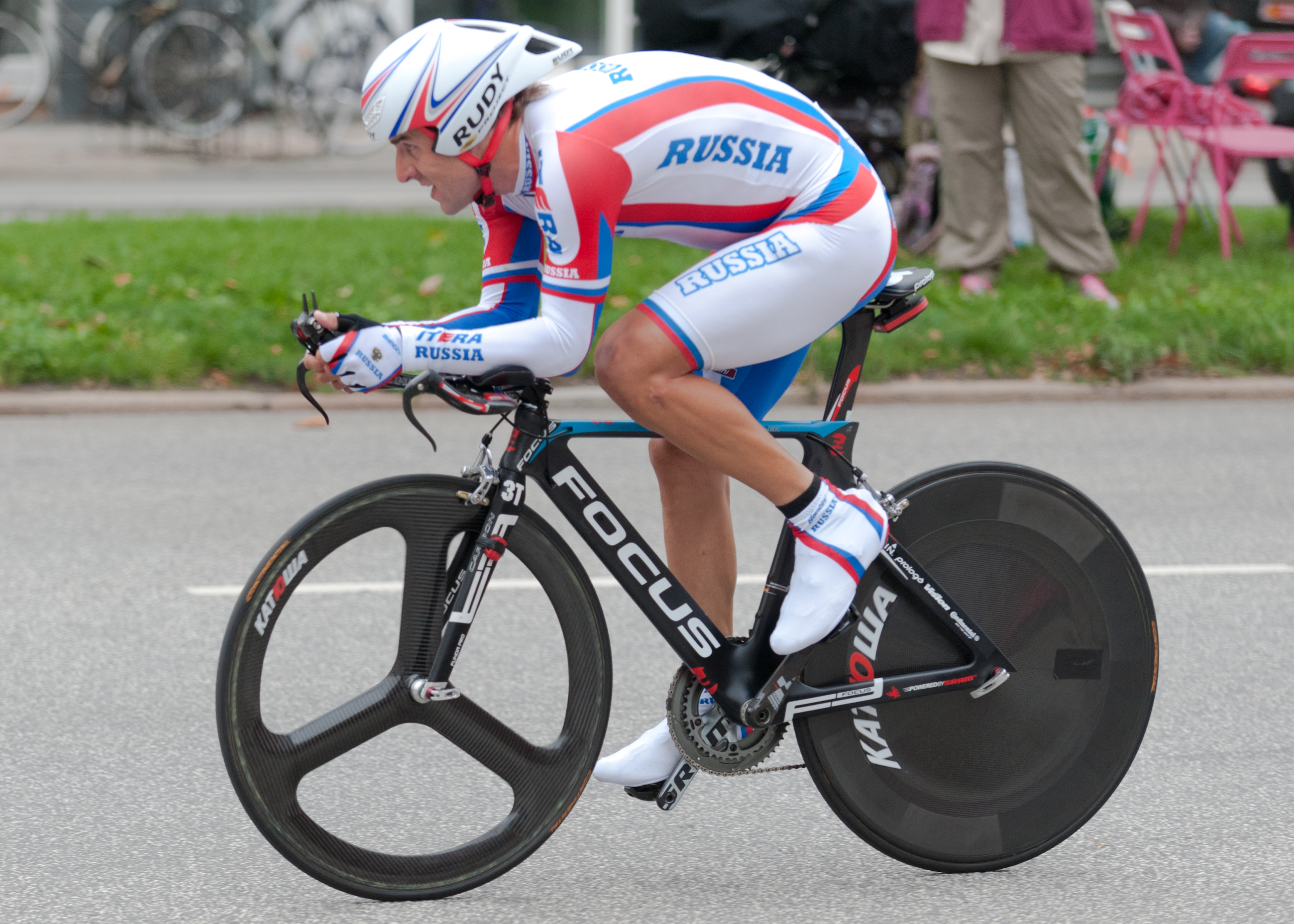 Vladimir Gusev at the 2011 UCI Road World Championship in Copenhagen.